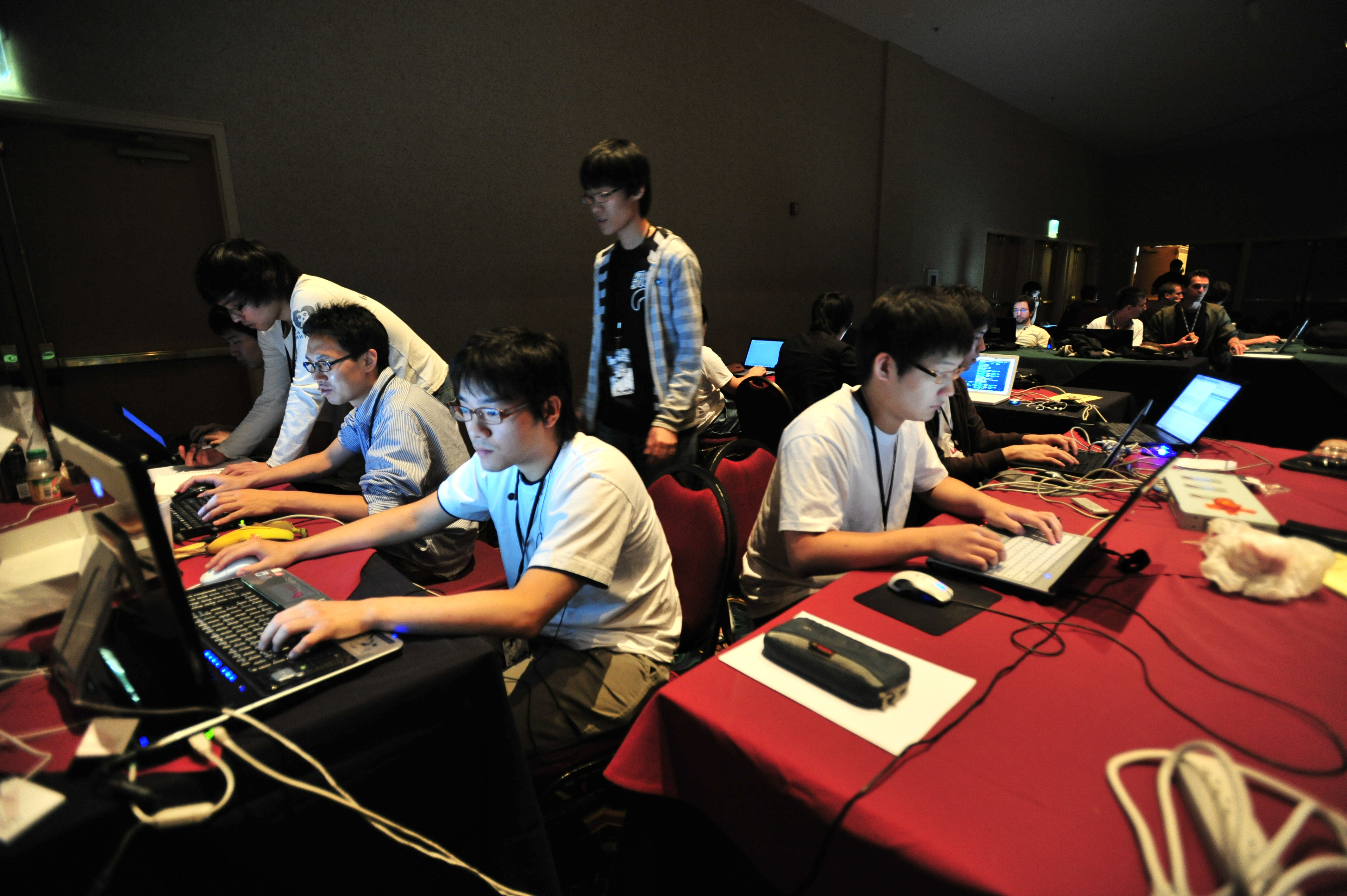 A team competing in the CTF competition at DEF CON 17 in Las Vegas, Nevada, United States.